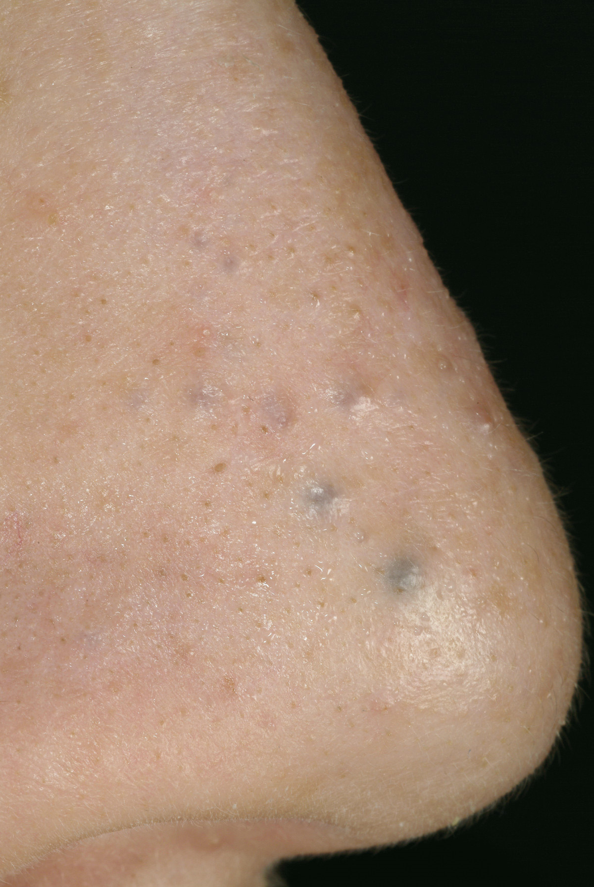 Eccrine hydrocystoma. Multiple small papules. Some are skin-colored; the larger papules are dark ("hydrocystome noire").